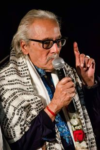 Amaresh Roy Chowdhury receiving an award in Narayanganj